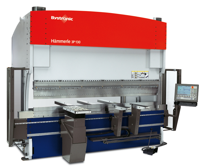 Bystronic Hämmerle